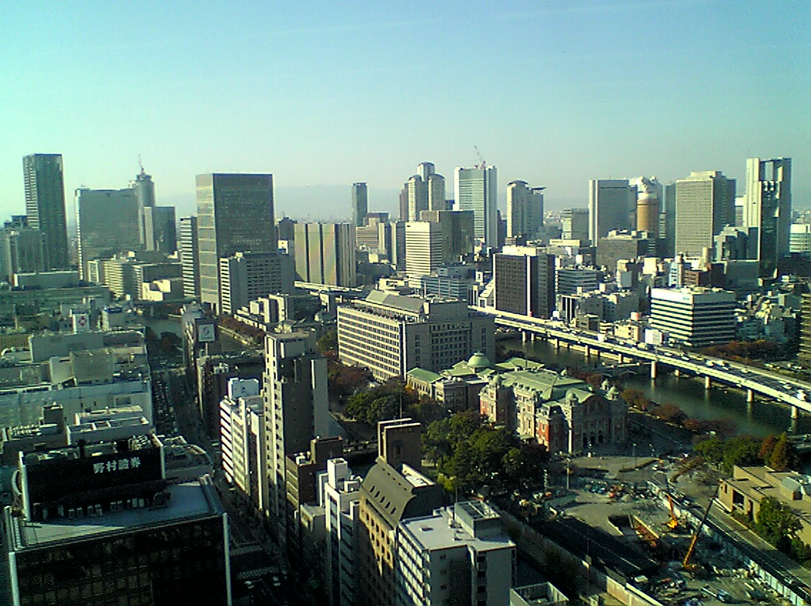 The skyline in Umeda,Osaka.The right side is Umeda,the left side is Nakanoshima.